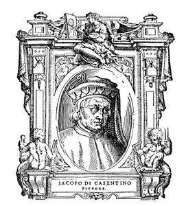 Illustratio from "Le Vite" by Giorgio Vasari, edition of 1568. For the artist portrayed see filename